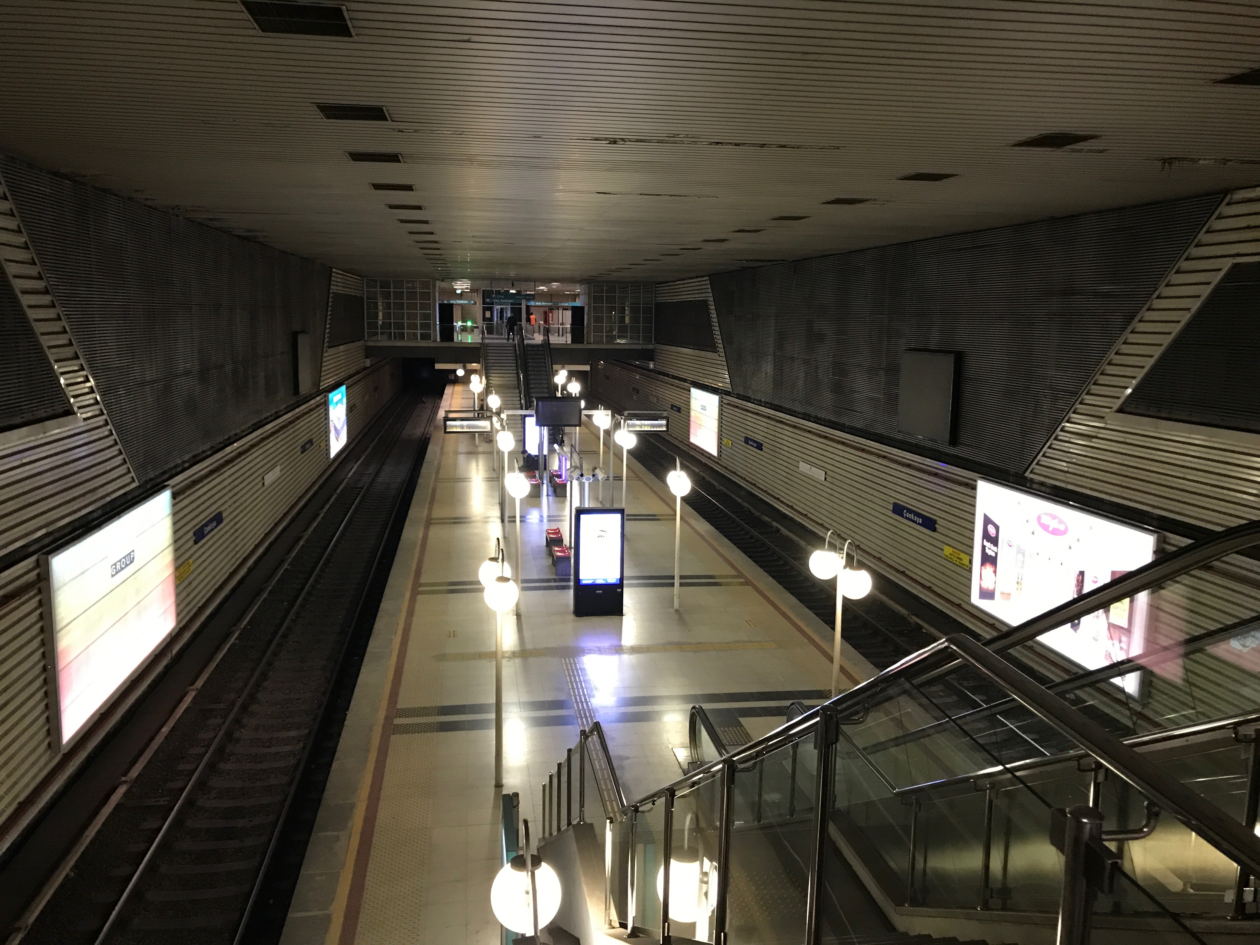 Çankaya metro station in İzmir, Turkey. Although being one of the busiest stations of İzmir Metro, it is almost empty due to the COVID-19 pandemic.